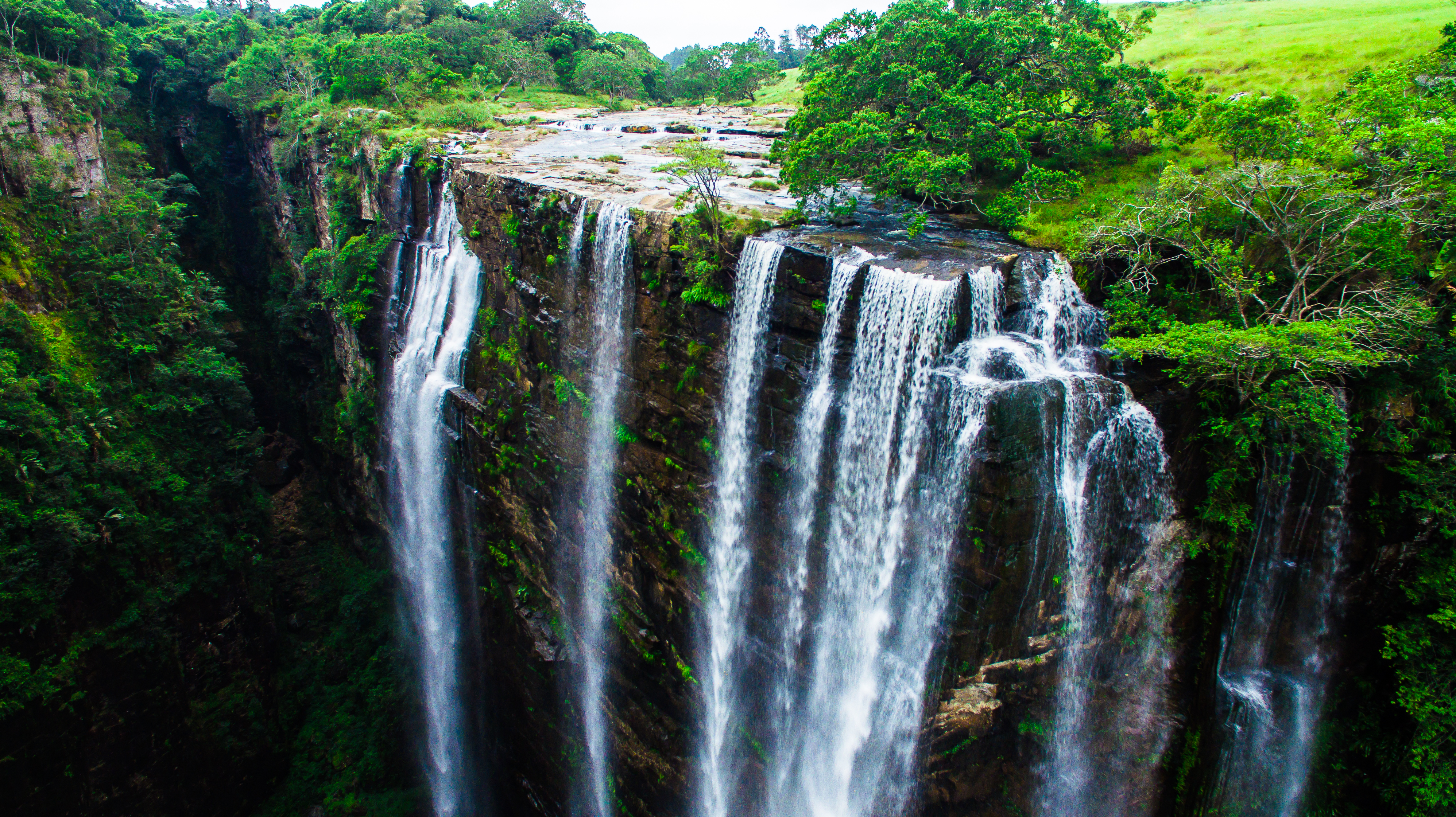 Magwa Falls is a waterfall located in the Eastern Cape of South Africa. The waterfall is 142 meters high which drops into a steep gorge.